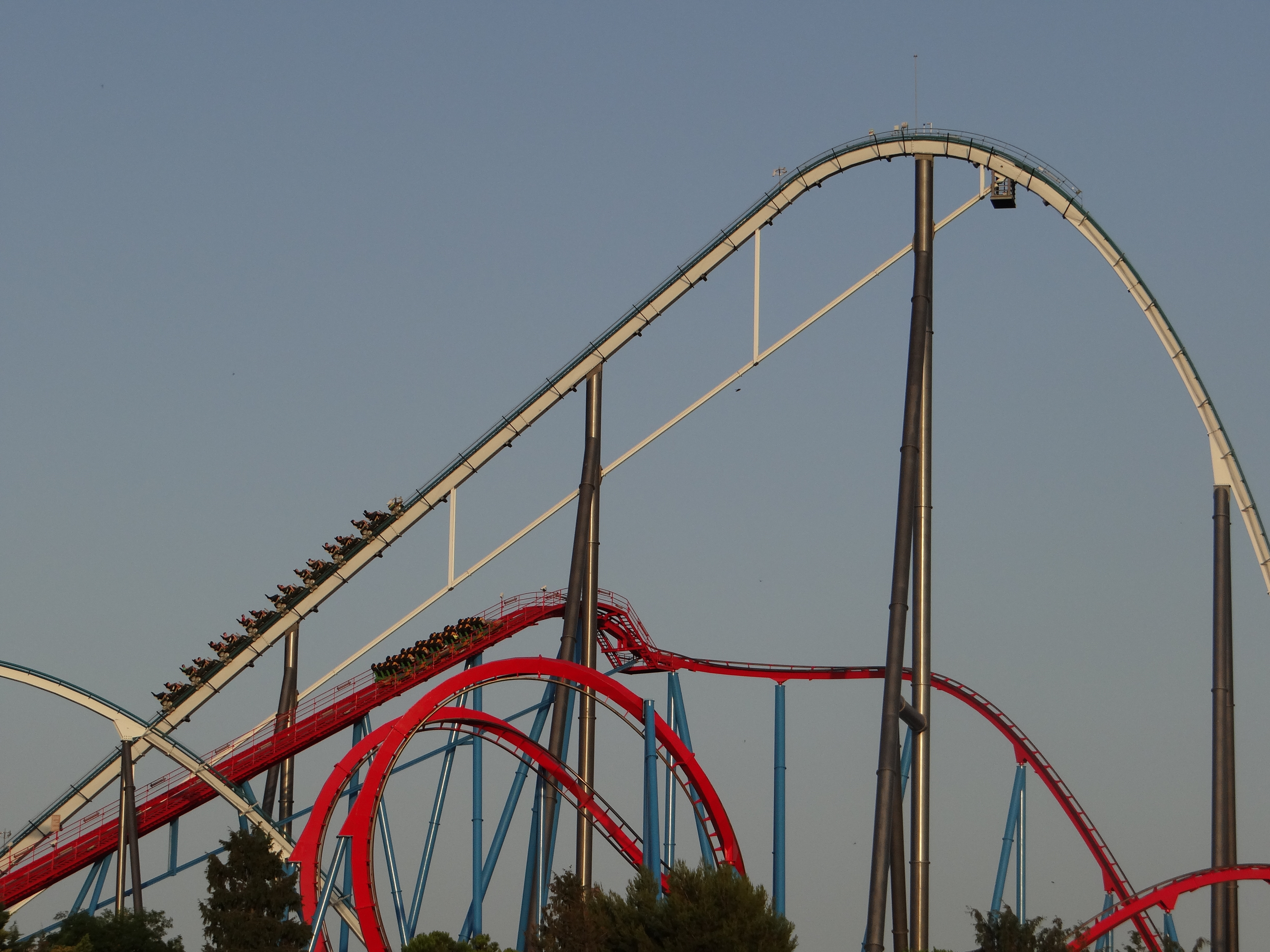 Shambhala is an hypercoaster sited in PortAventura Park (Salou, Spain)